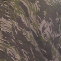 Lebanese Commando Regiment Tigerstripes camouflage.